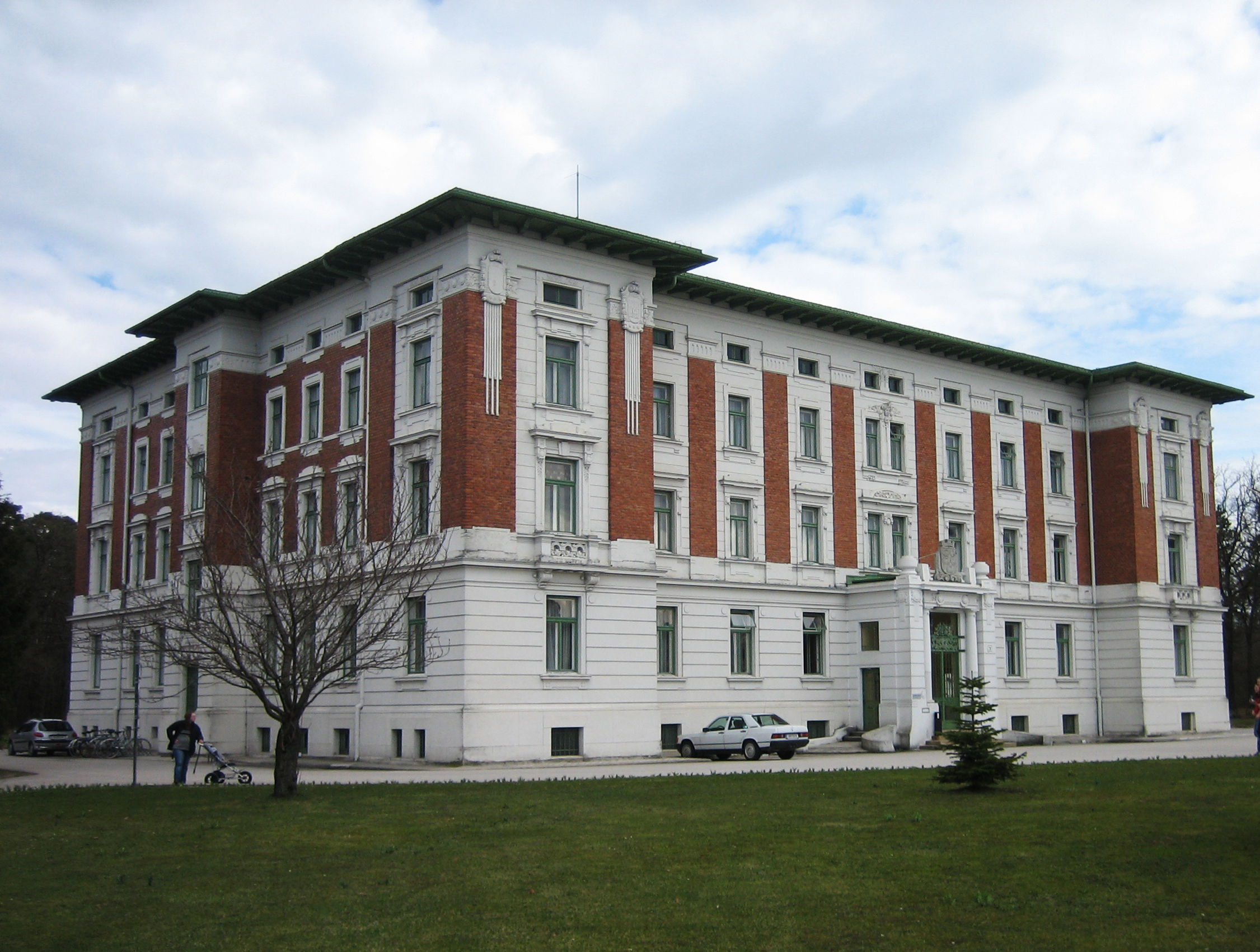 Amstetten-Mauer. Lower Austria. Austria. Landesklinikum Mostviertel Amstetten-Mauer. Administration Building, Art Noveau.